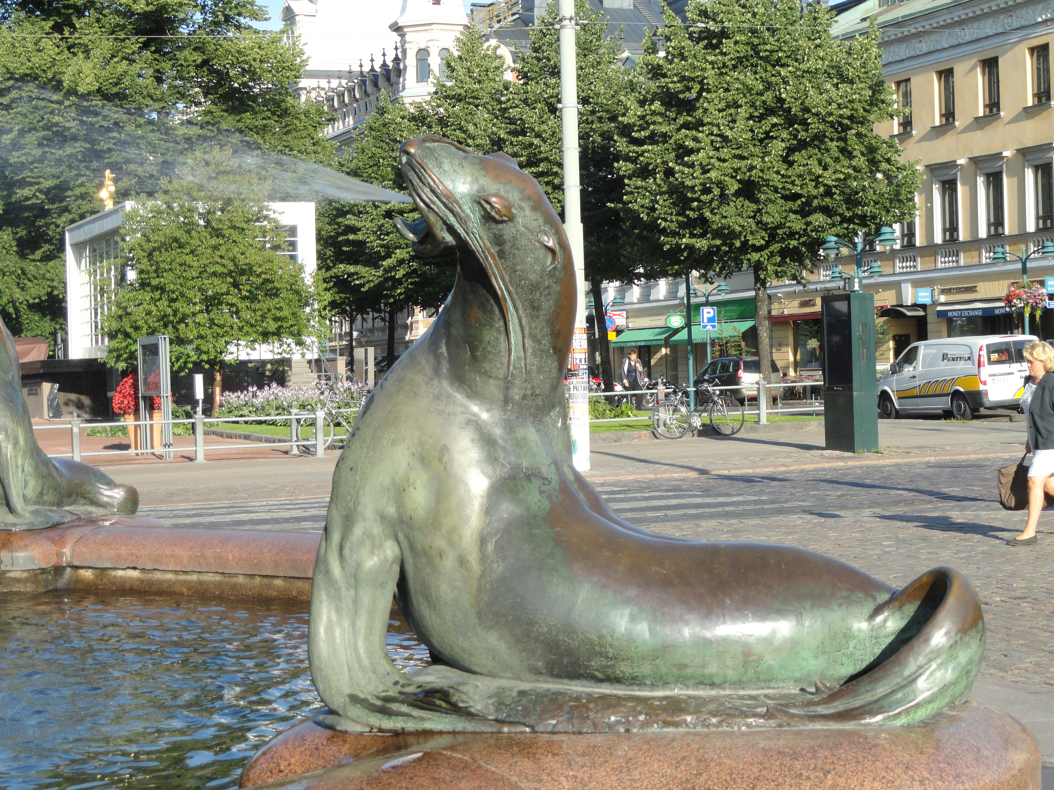 Havis Amanda, Esplanadi, Helsinki, Finland. Sculptor: Ville Vallgren. This artwork is in the public domain because the artist died more than 70 years ago.